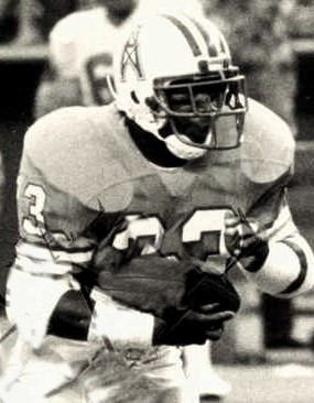 Houston Oilers' quarterback Warren Moon handing the ball off to teammate running back Mike Rozier during a 1987 home game.